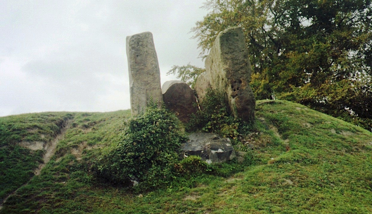 Coldrum Long Barrow-View looking west at the chamber from below.